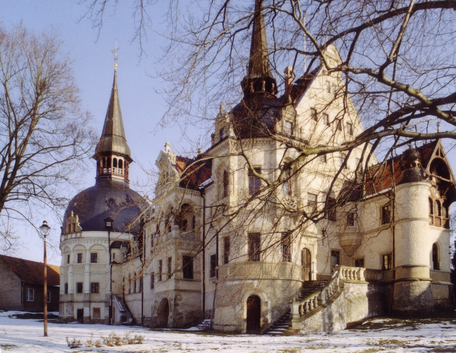 Castle of Schönfeld